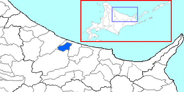 The location of Kamiyubetsu in Abashiri Subprefecture, Hokkaido Prefecture, Japan.